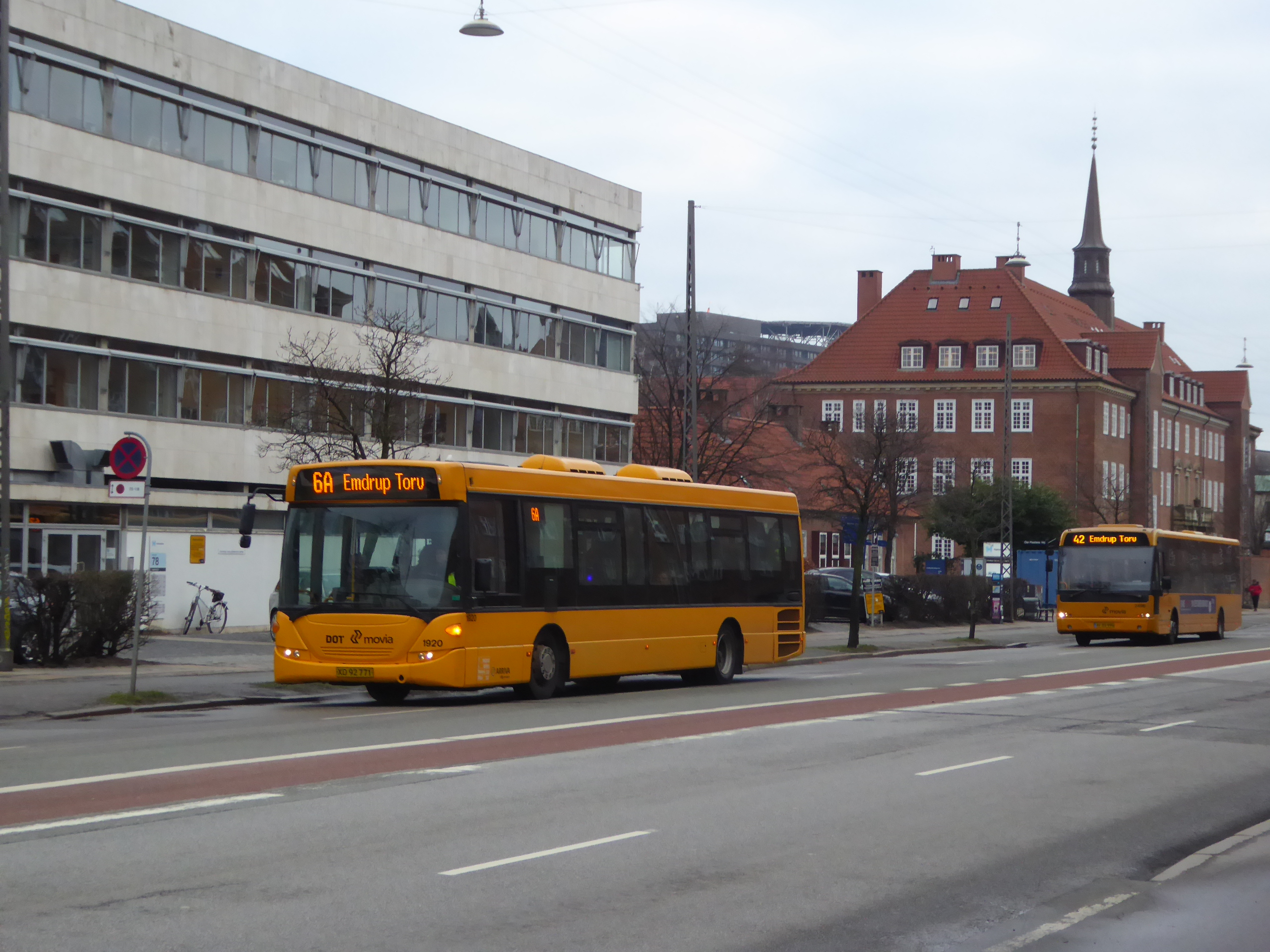 Movia bus line 6A on Tagensvej in Nørrebro in Copenhagen. The A-buses usually has red corners but this is a reserve bus of the regular bus line 68.